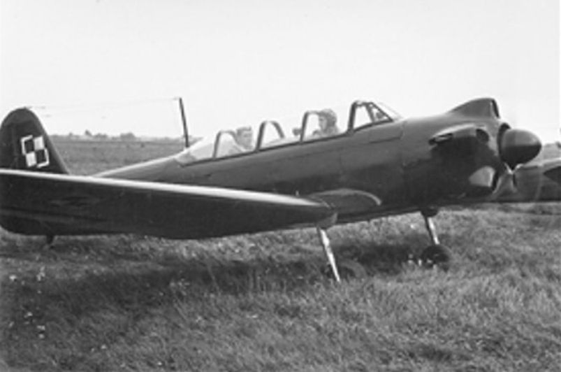 Piloci 6 Eskadry Samolotów szkolnych na lotnisku w Ułężu